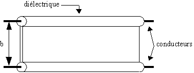 Diagram of a transmission line